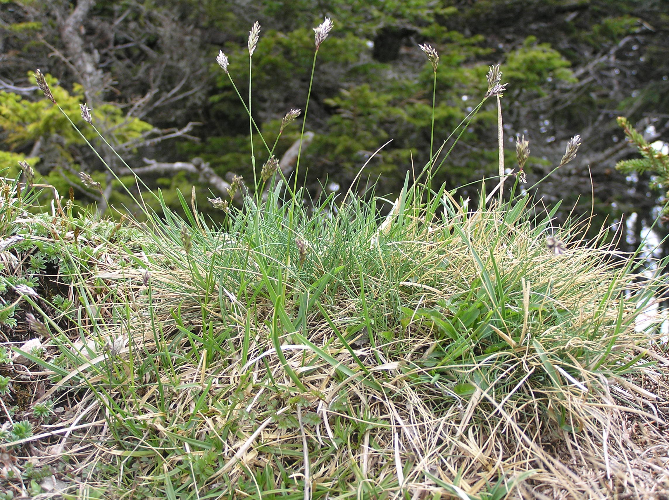 Sesleria caerulea, Austria, Apls, the mountain Schneeberg near Wiener Neustadt